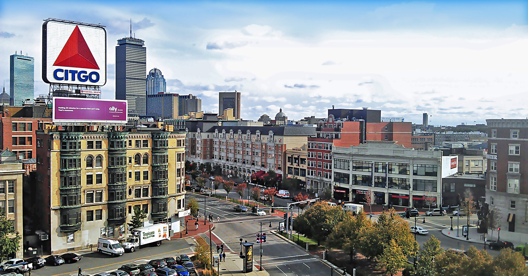 Kenmore Square on a sunny day